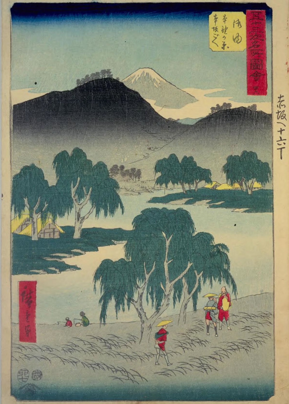 "Famous Places of the Fifty-three Stations of the Tōkaidō (GojūSanTsugi-MeishoZu'e), No. 36, Goyu" : Honno-ga-hara, crossing Honzaka pass.